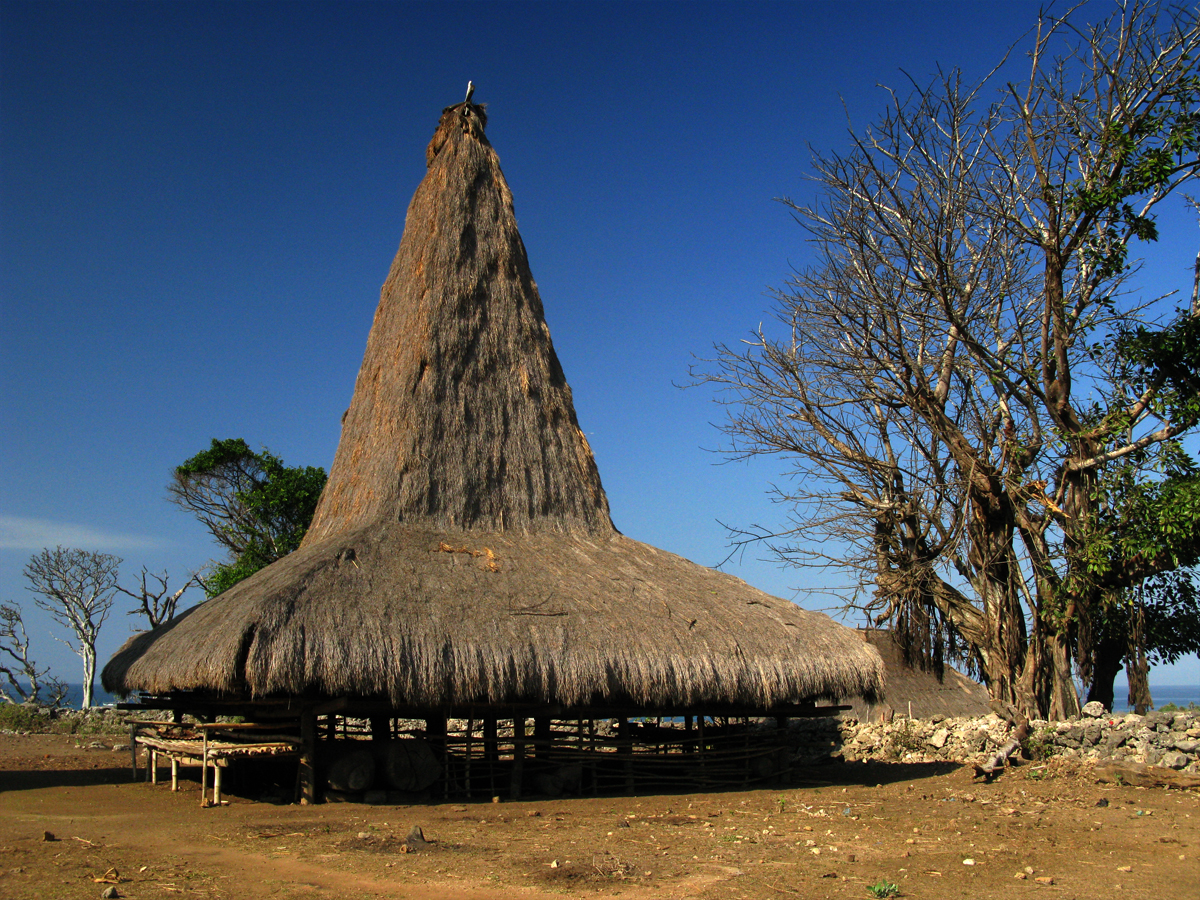 Ratenggaro, West Sumba, Indonesia. Fire from one of the house almost burned the whole village in June 2007. We can't see the house with 12m height roof. But the villagers on progress to make the new one since March 2008